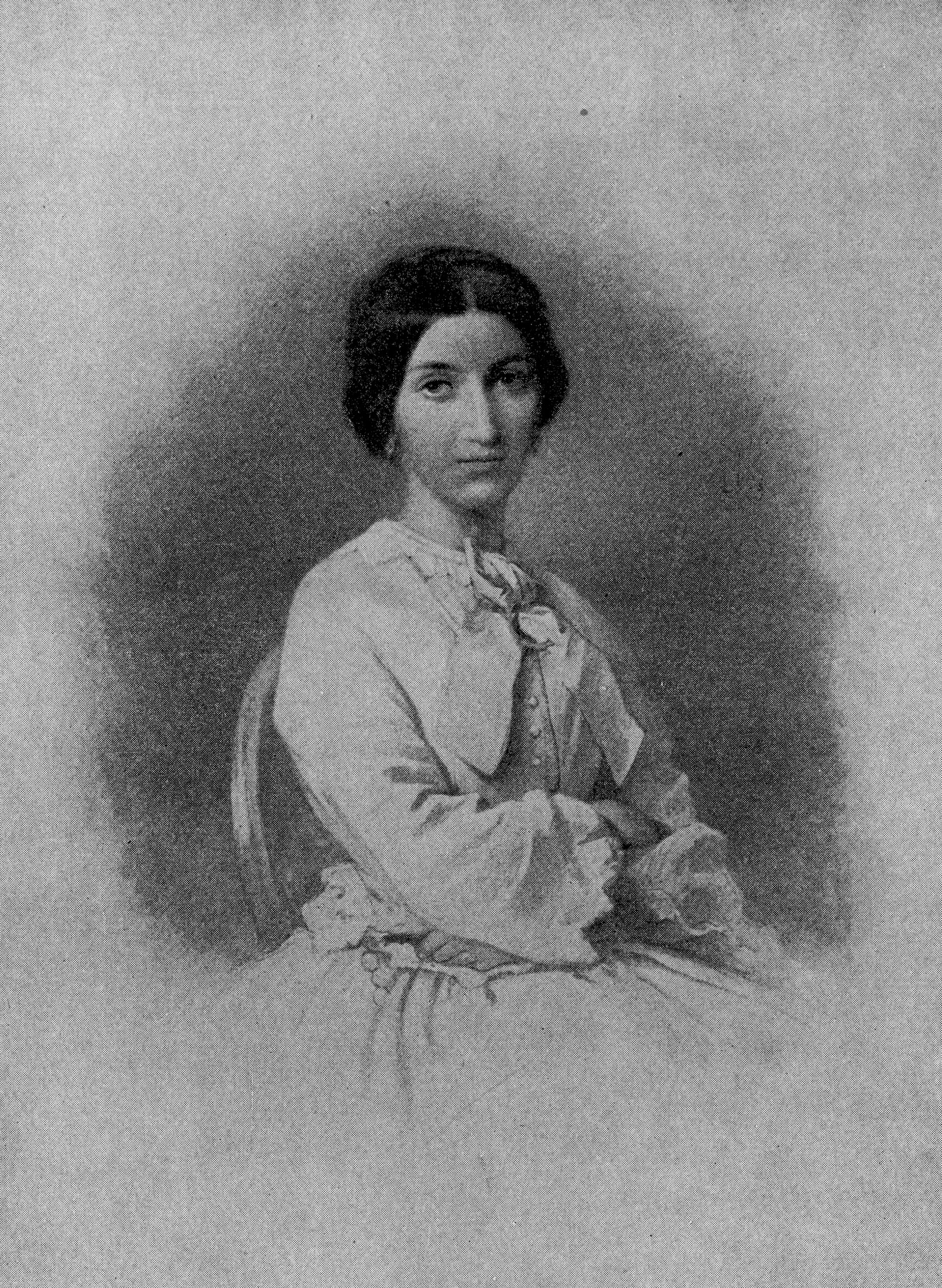 Johanna von Bismarck, the later wife of Otto von Bismarck 1855 after a pastel sketch of professor Jakob Becker.